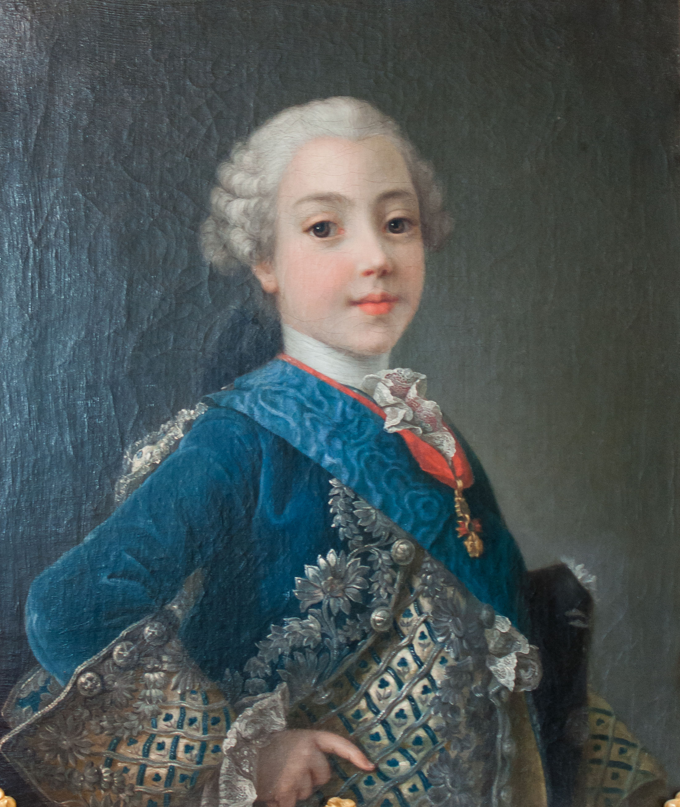 Portrait of Charles X of France (1757-1836), Count of Artois as a child